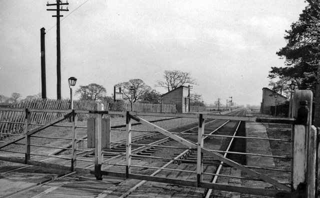 Bubwith Station (remains).South of Bubwith, East Riding of Yorkshire, England. View eastward, towards Market Weighton and Driffield; ex-North Eastern, Selby - Market Weighton - Driffield - (Bridlington) line. The line was closed completely on 14/6/65, but this station had been closed to passengers on 20/9/54, to goods on 27/1/64.